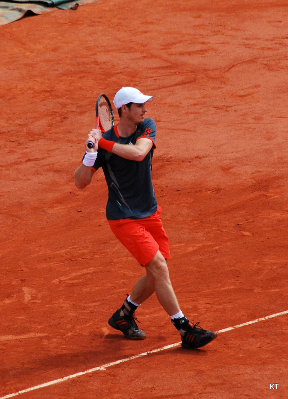 Andy Murray during his 2nd round match with Jarkko Nieminen. Murray won 1-6, 6-4, 6-1, 6-2. Day 5 of Roland Garros 2012.